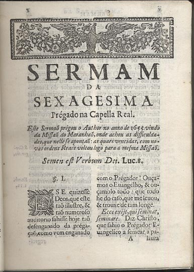 Title page of the first published version of António Vieira's Sermon of the Sexagesima (preached in 1655), part of a collection of Vieira's sermons published Lisbon, 1679.